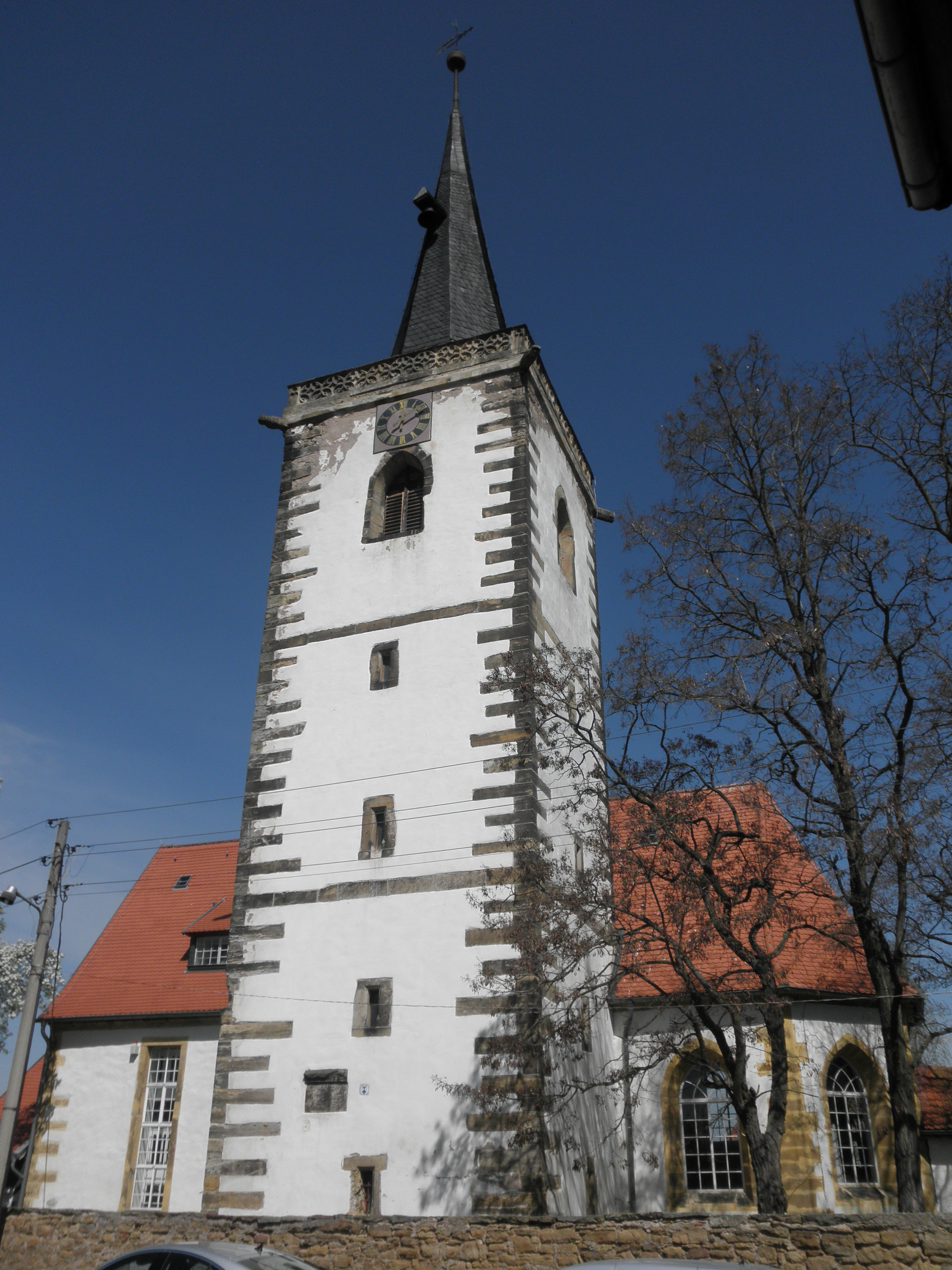 Church in Pferdingsleben in Thuringia